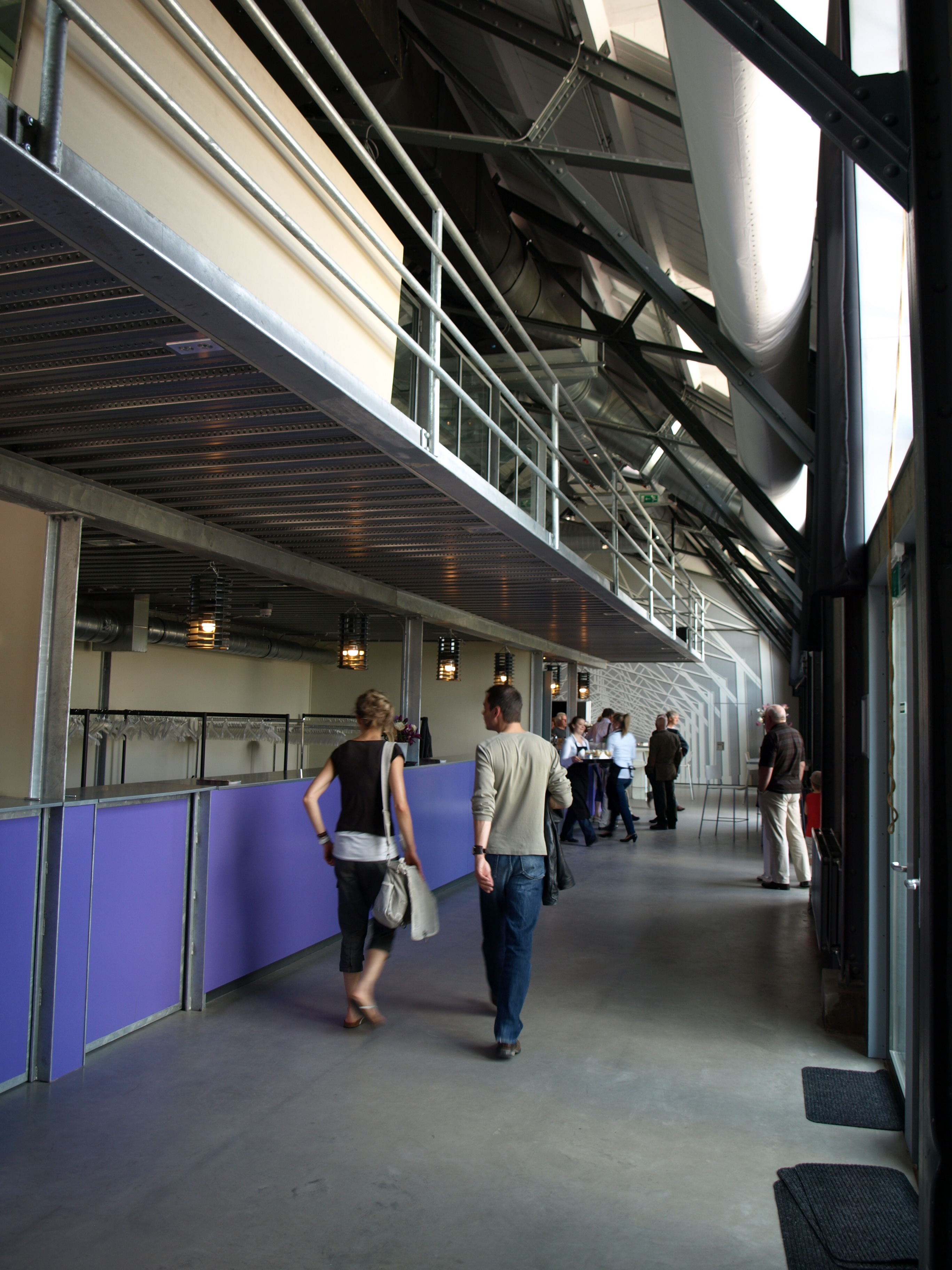 Amersfoort Railway Workshop (Nl)